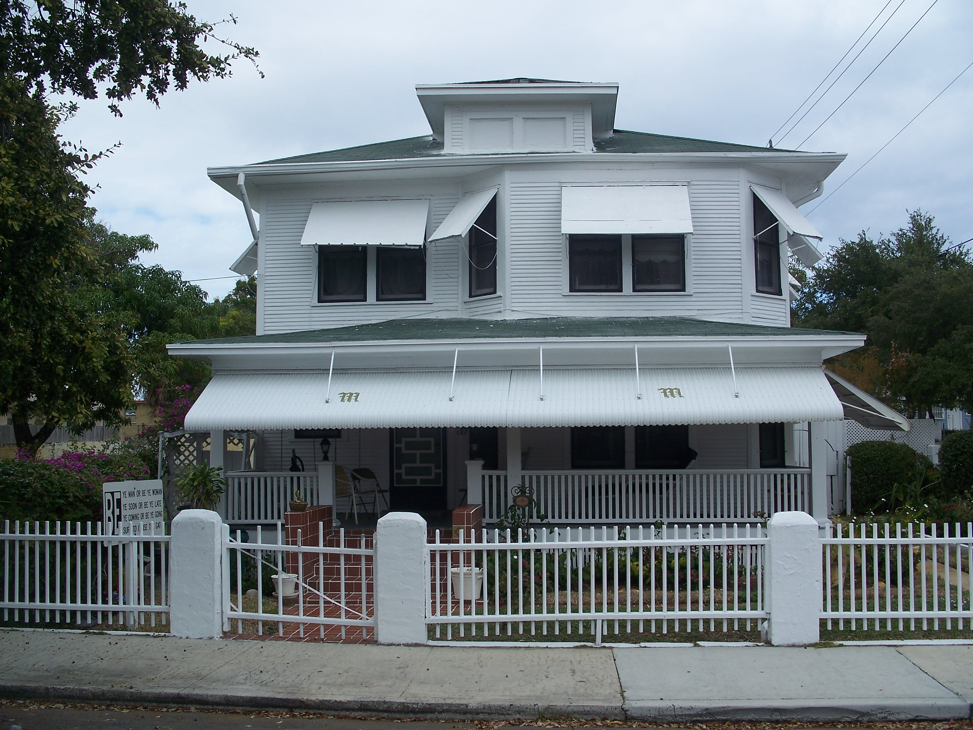 West Palm Beach: Northwest Historic District: Mickens House